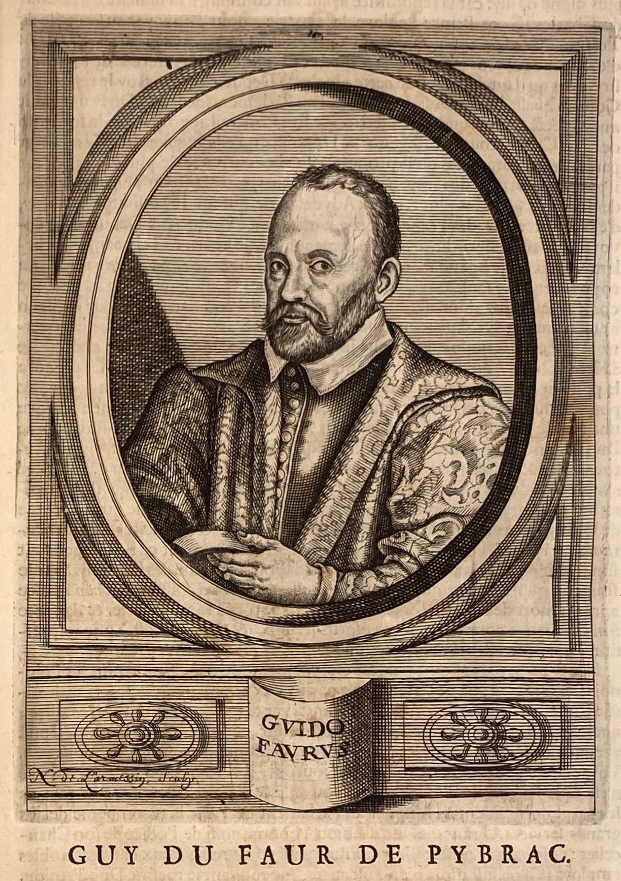 Half-length portrait of Guy Du Faur de Pibrac, facing to the left